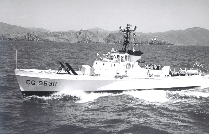 CG-95311 (later Cape Hedge), 1962; note her mousetraps in firing position.